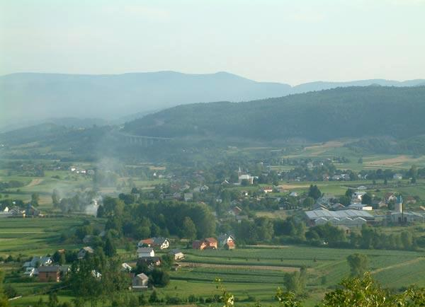 Panoramic view of Josipdol, Croatia